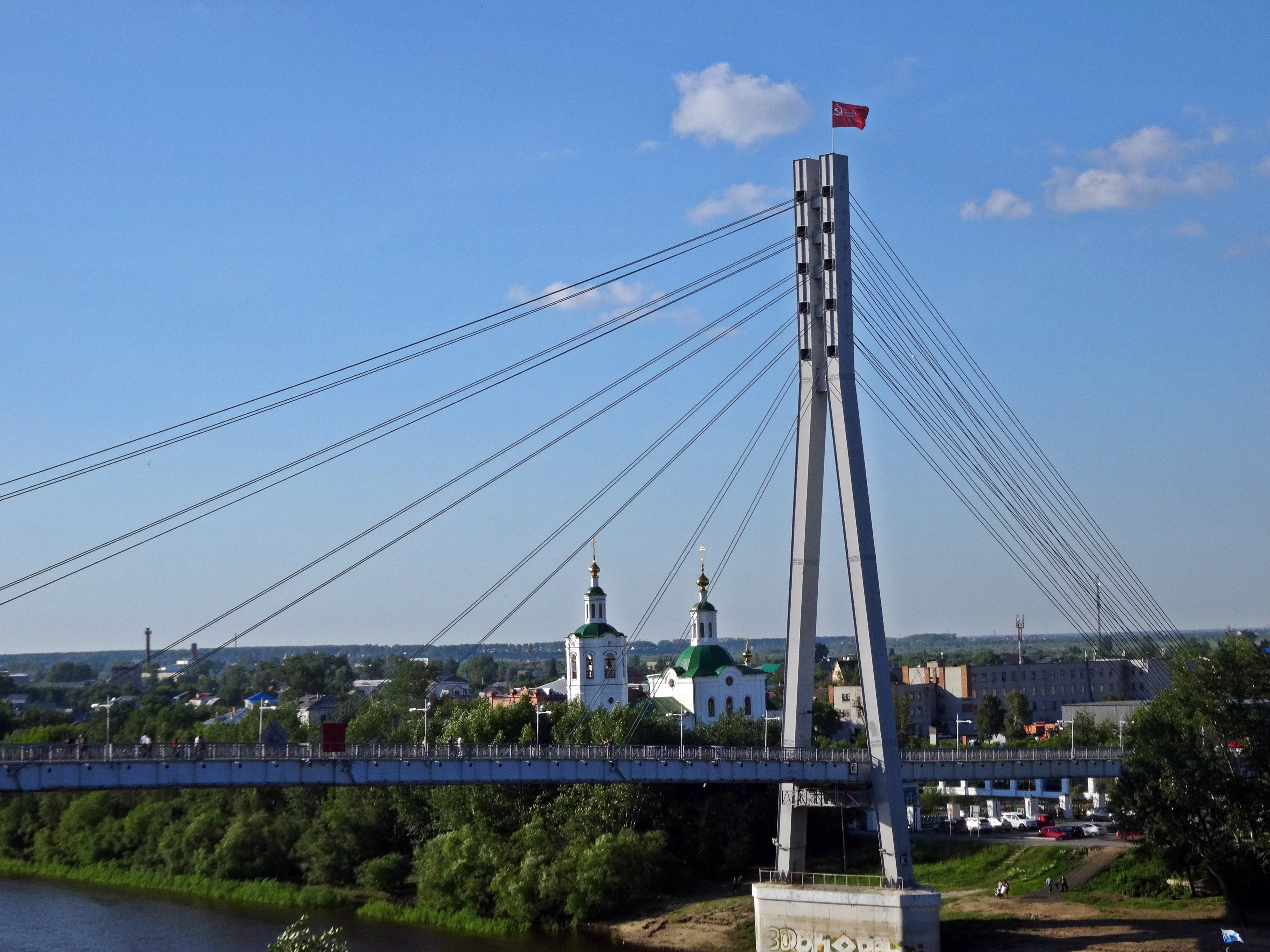 Lovers Bridge Tyumen Russia